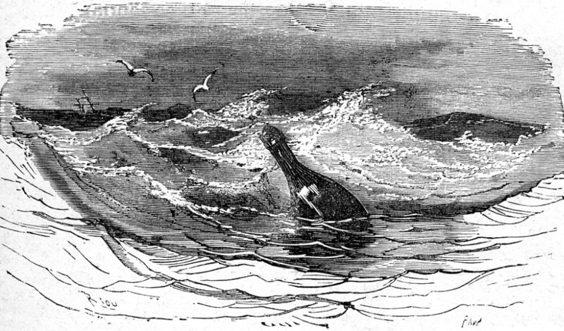 An ilustration from the novel "In Search of the Castaways; or Captain Grant's Children" by Jules Verne drawn by Édouard Riou.